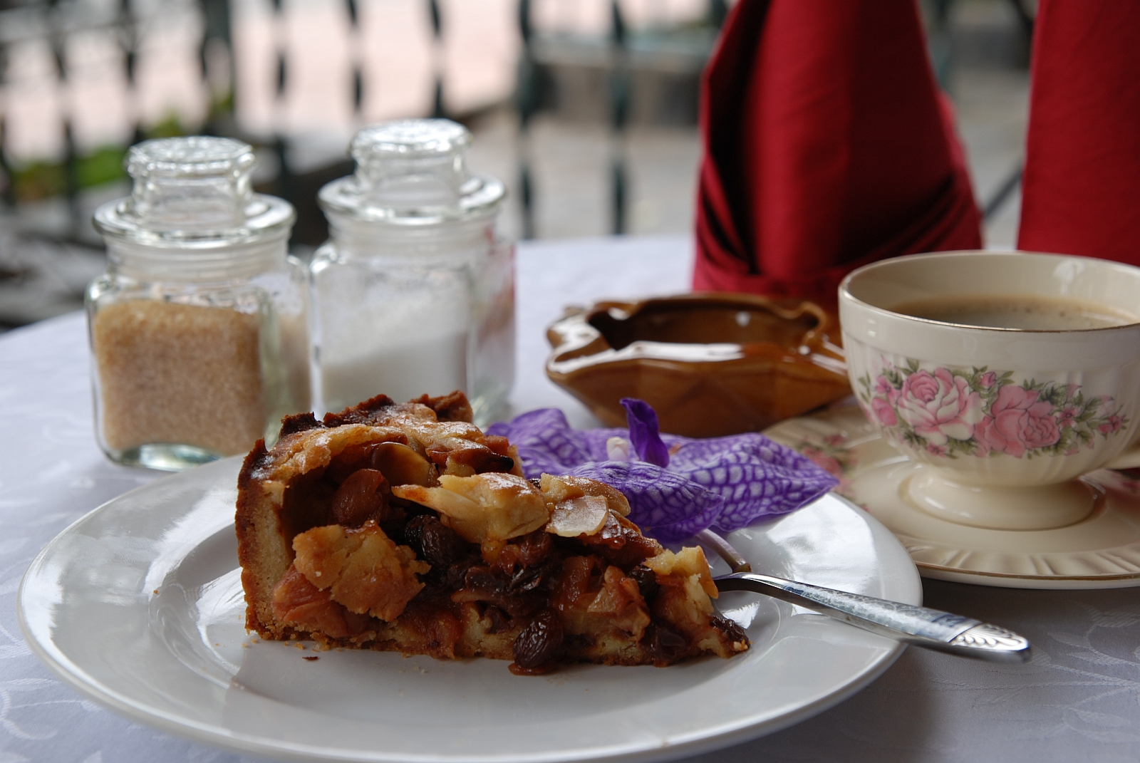 A slice of Dutch apple pie (appeltaart) showing the raisins, sliced almonds, firm sweet apple and finely chopped candied ginger. Photo taken in Chiang Mai, Thailand.